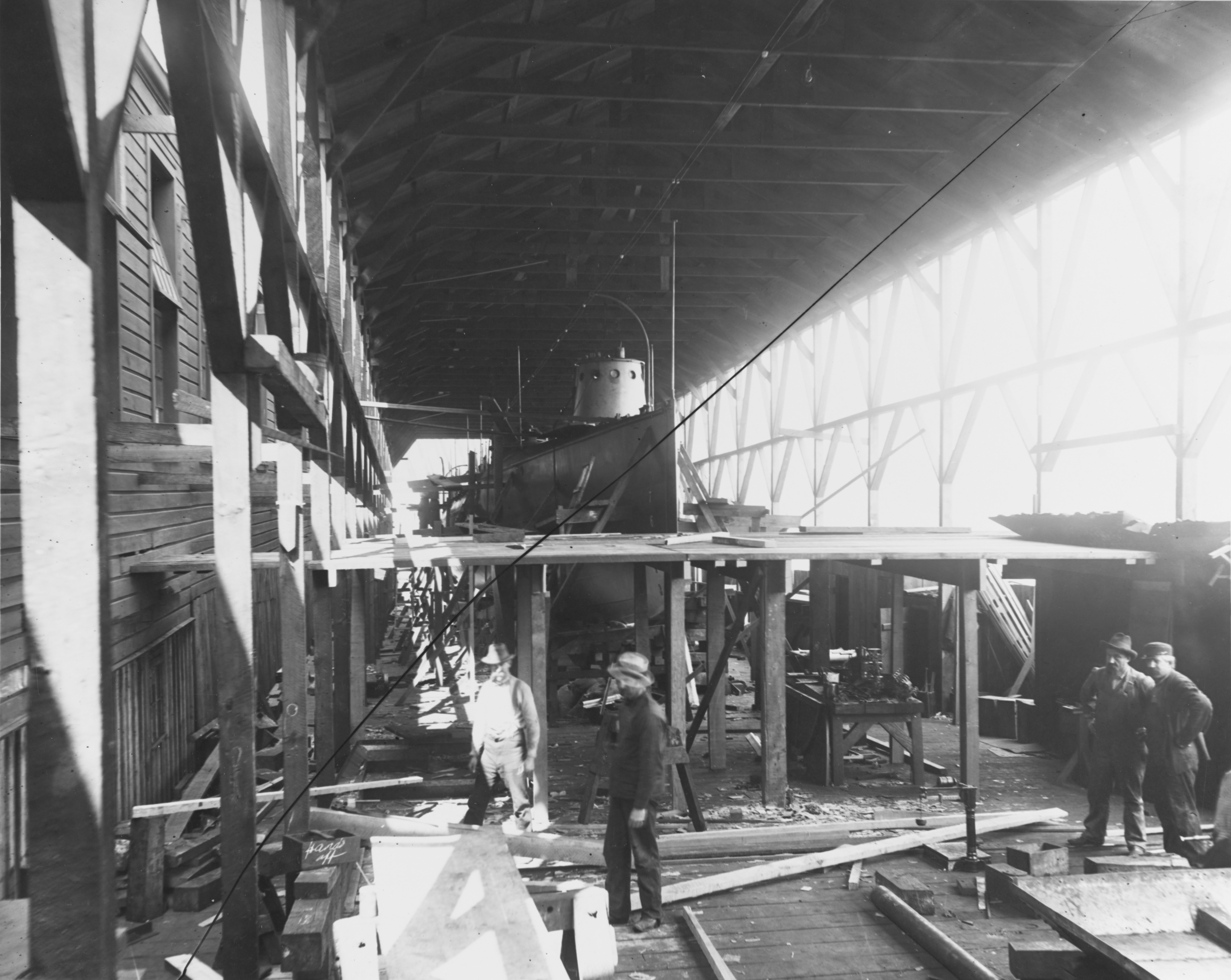 (Torpedo Boat # 13) In the building shed at the Wolff & Zwicker Iron Works, Portland, Oregon, probably shortly before she was launched on 4 July 1898. This view was taken from off the boat's bow. Photograph from the Bureau of Ships Collection in the U.S. National Archives.